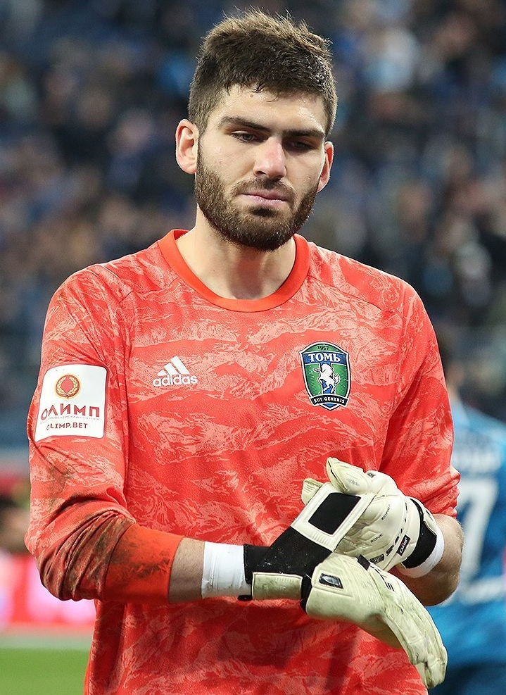 Arsen Siukayev with FC Tom Tomsk in a Russian Cup game against FC Zenit Saint Petersburg.